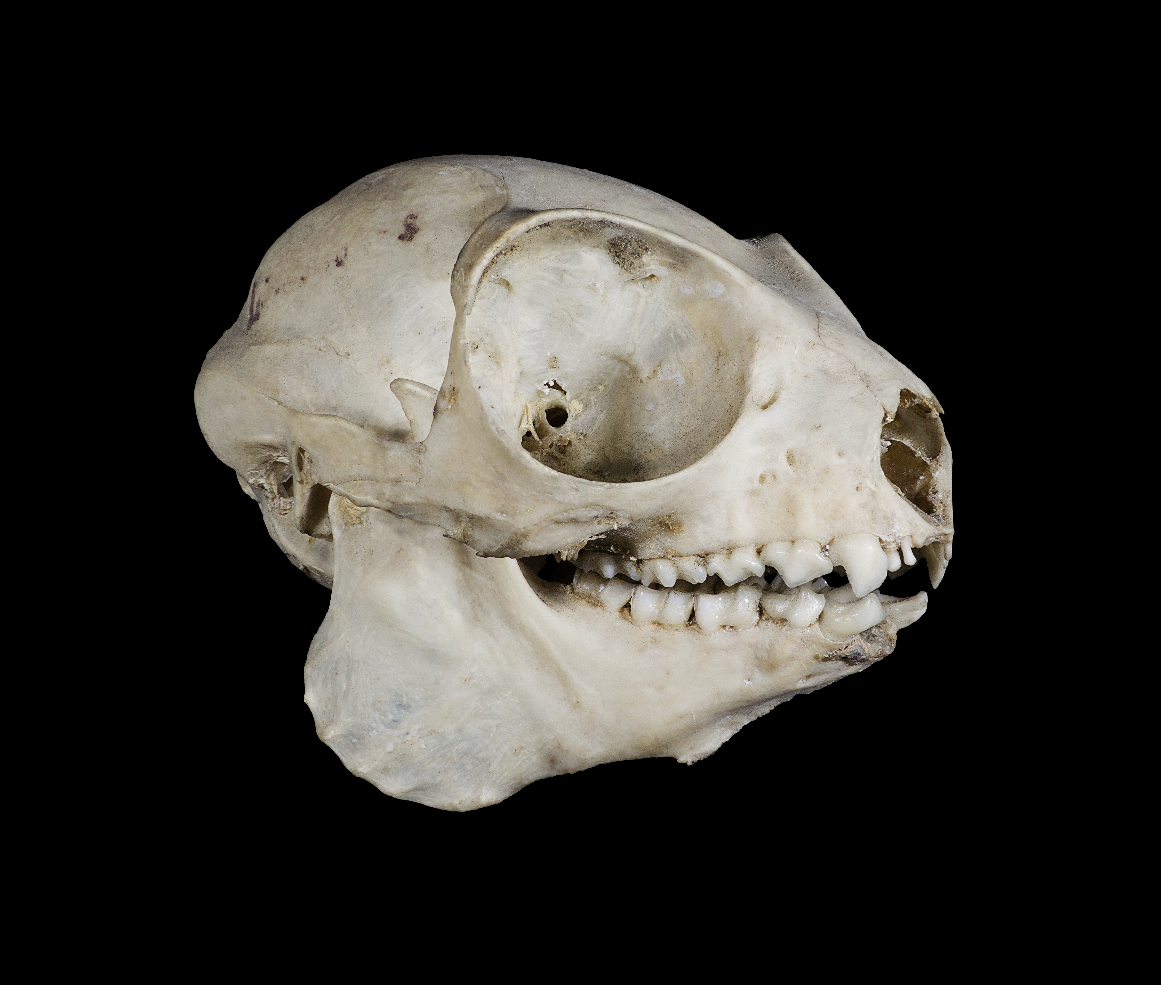 Eastern Woolly Lemur Avahi laniger (Gmelin, 1788) - (View ¾ face.) - Madagascar Size : 6 x 4.7x 4.5 cm